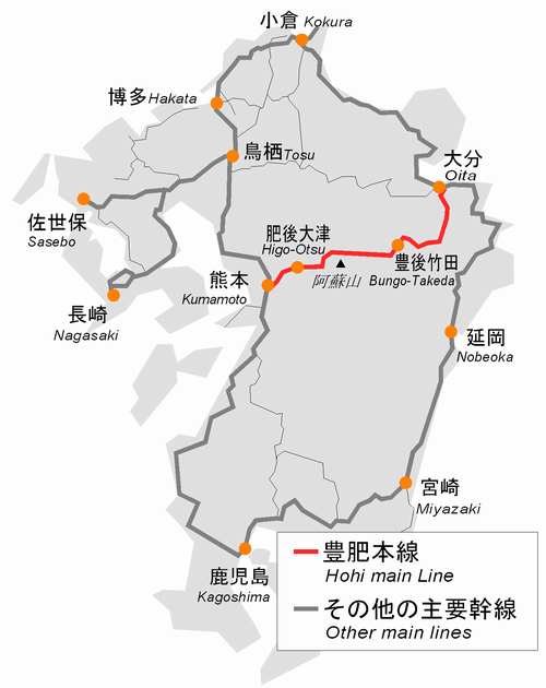 Map of Hohi Main Line , Kyushu Japan